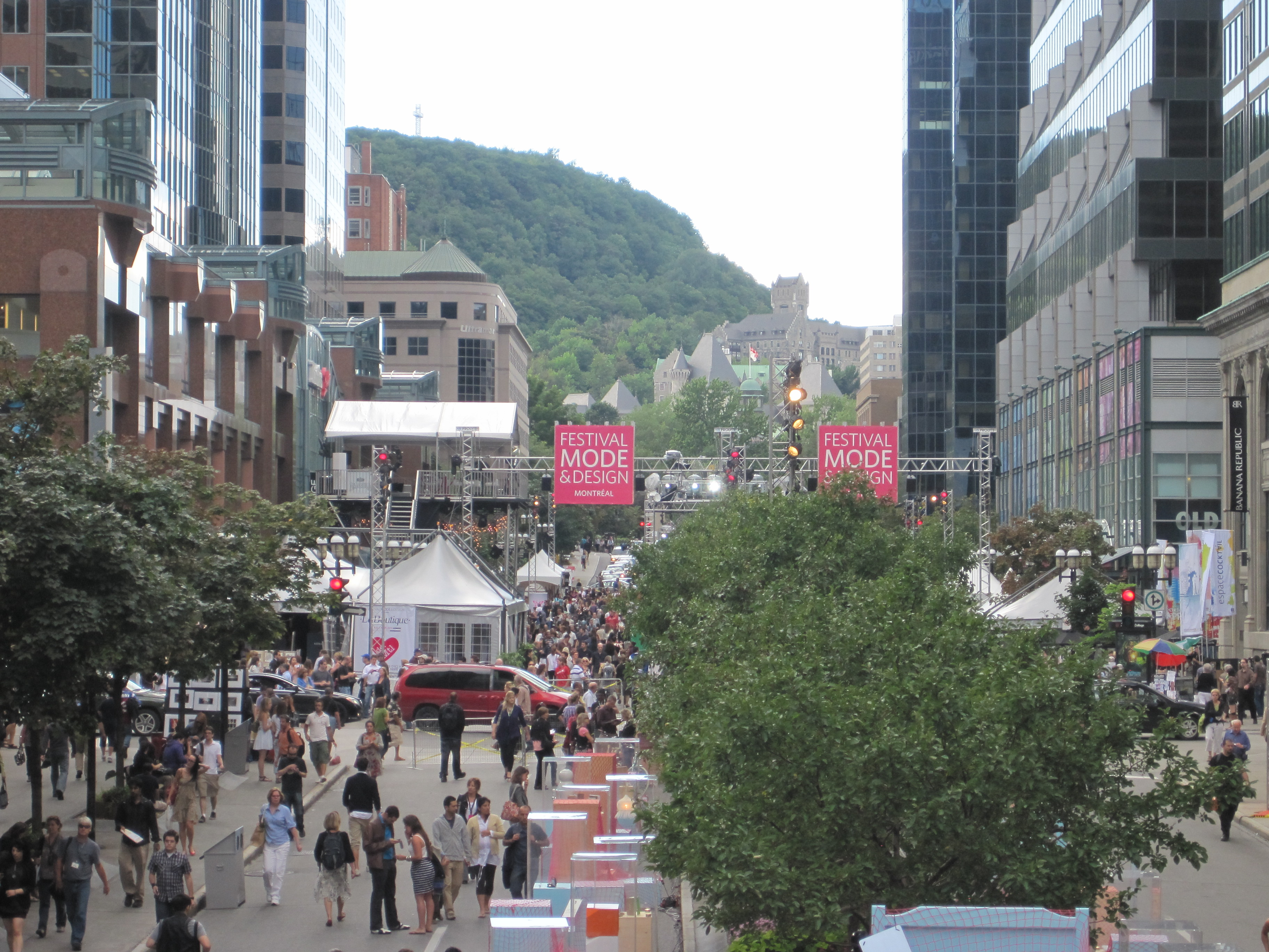 Photo du site du Festival Mode & Design de Montréal, perspective de l'Avenue McGill College (août 2010)